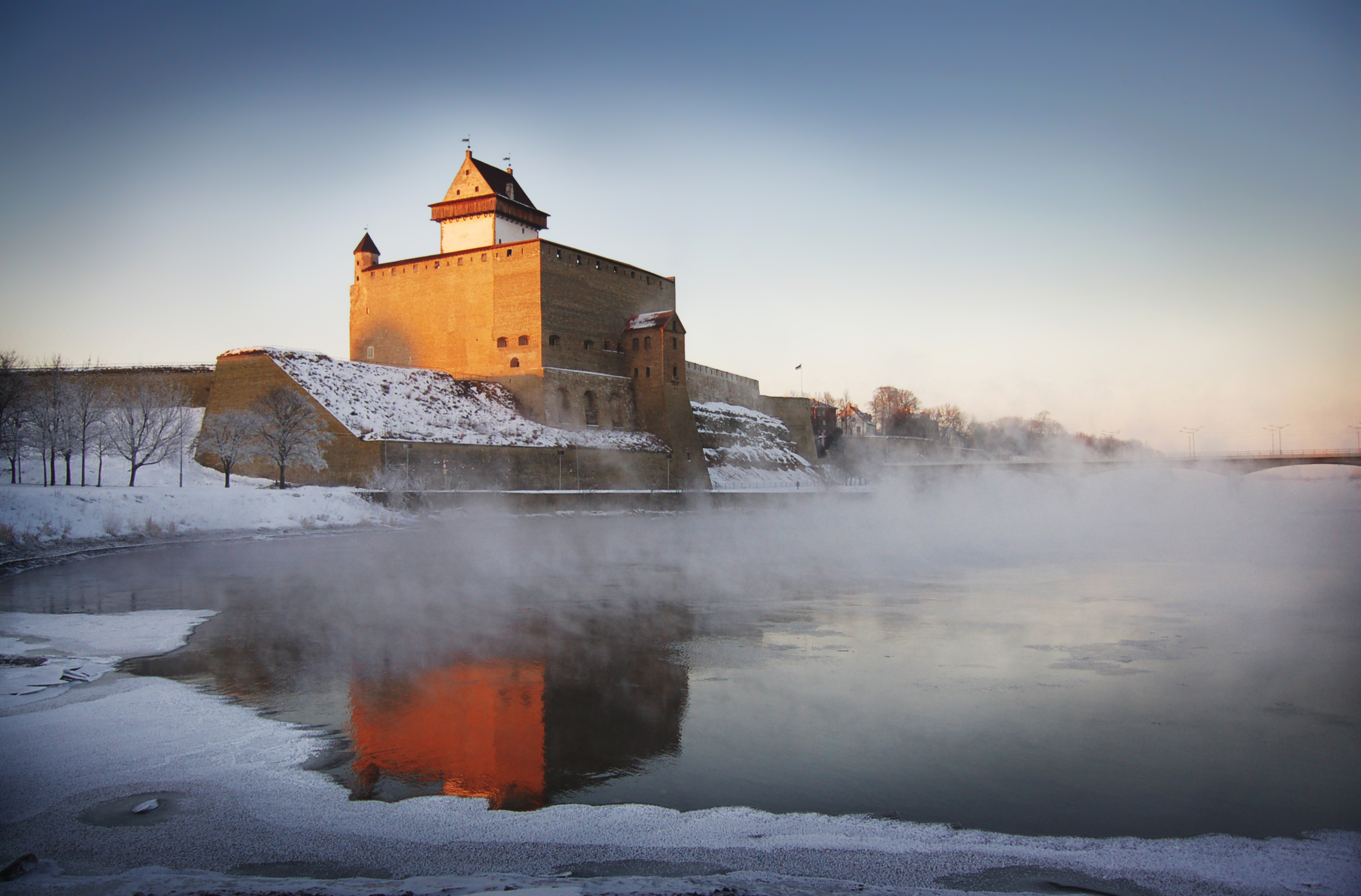 Hermann Castle, Narva, Estonia